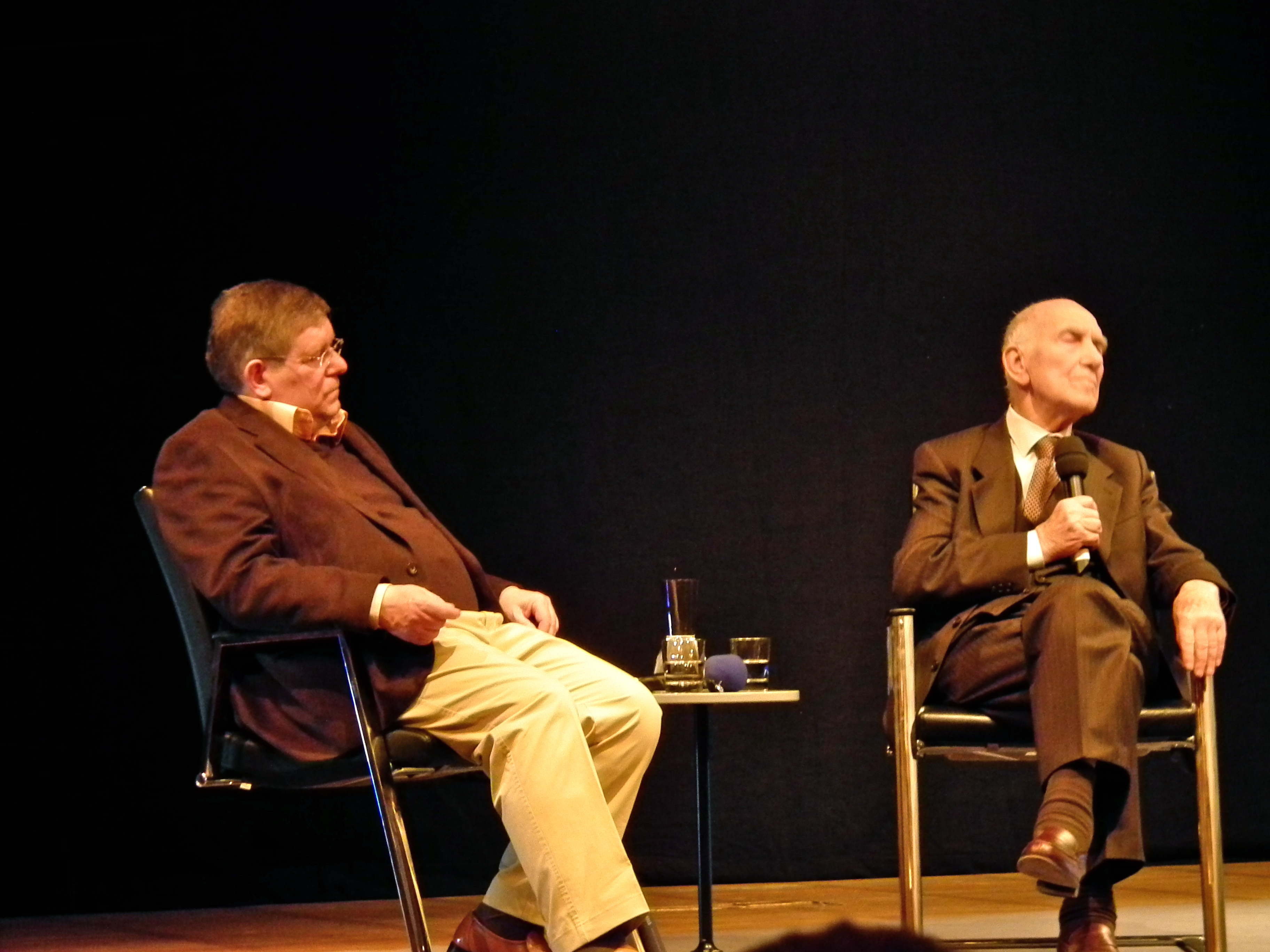 Manfred Fluegge and Stéphane Hessel at a reading during the Lit.Cologne 2012